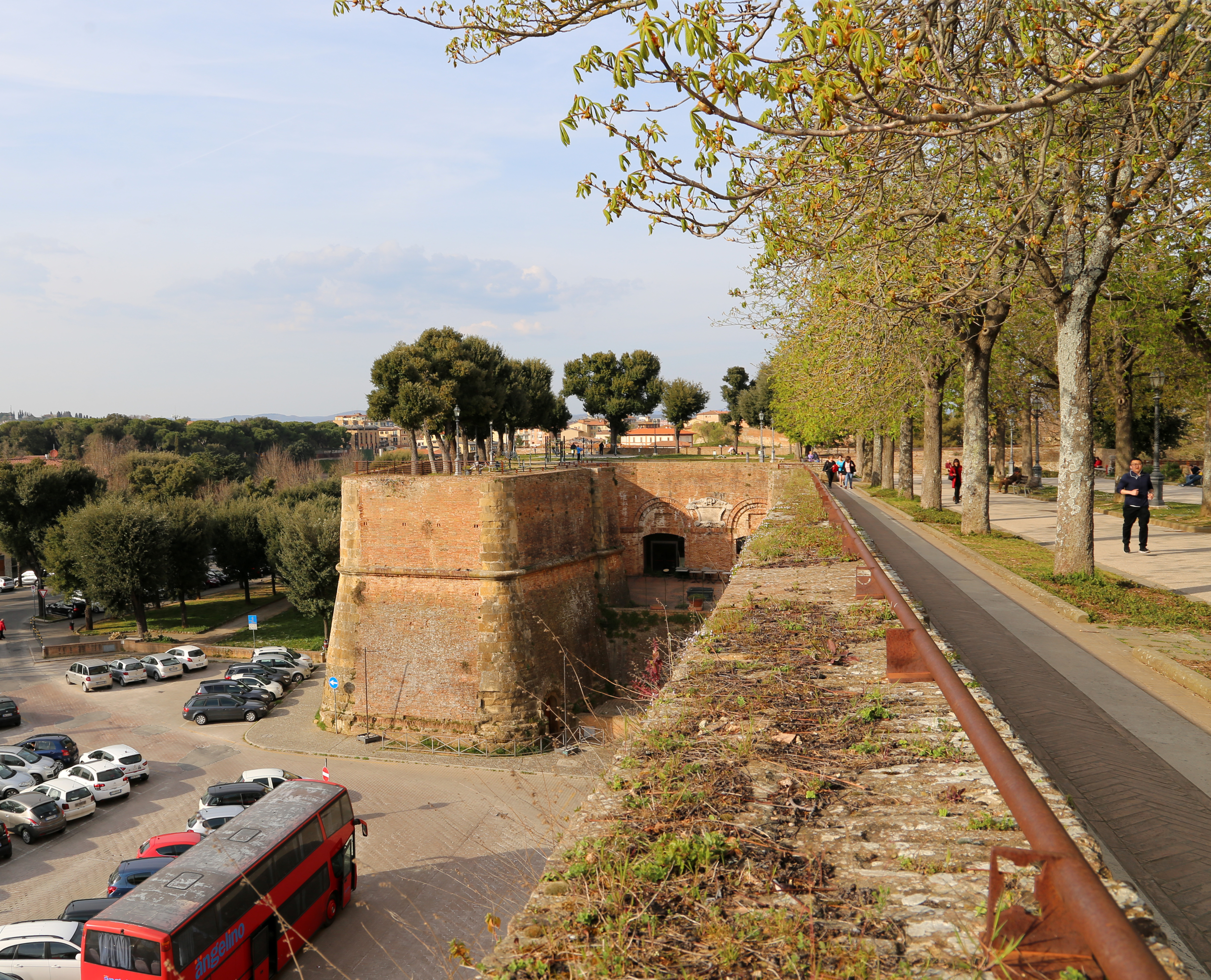 Fortezza Medicea (Siena)